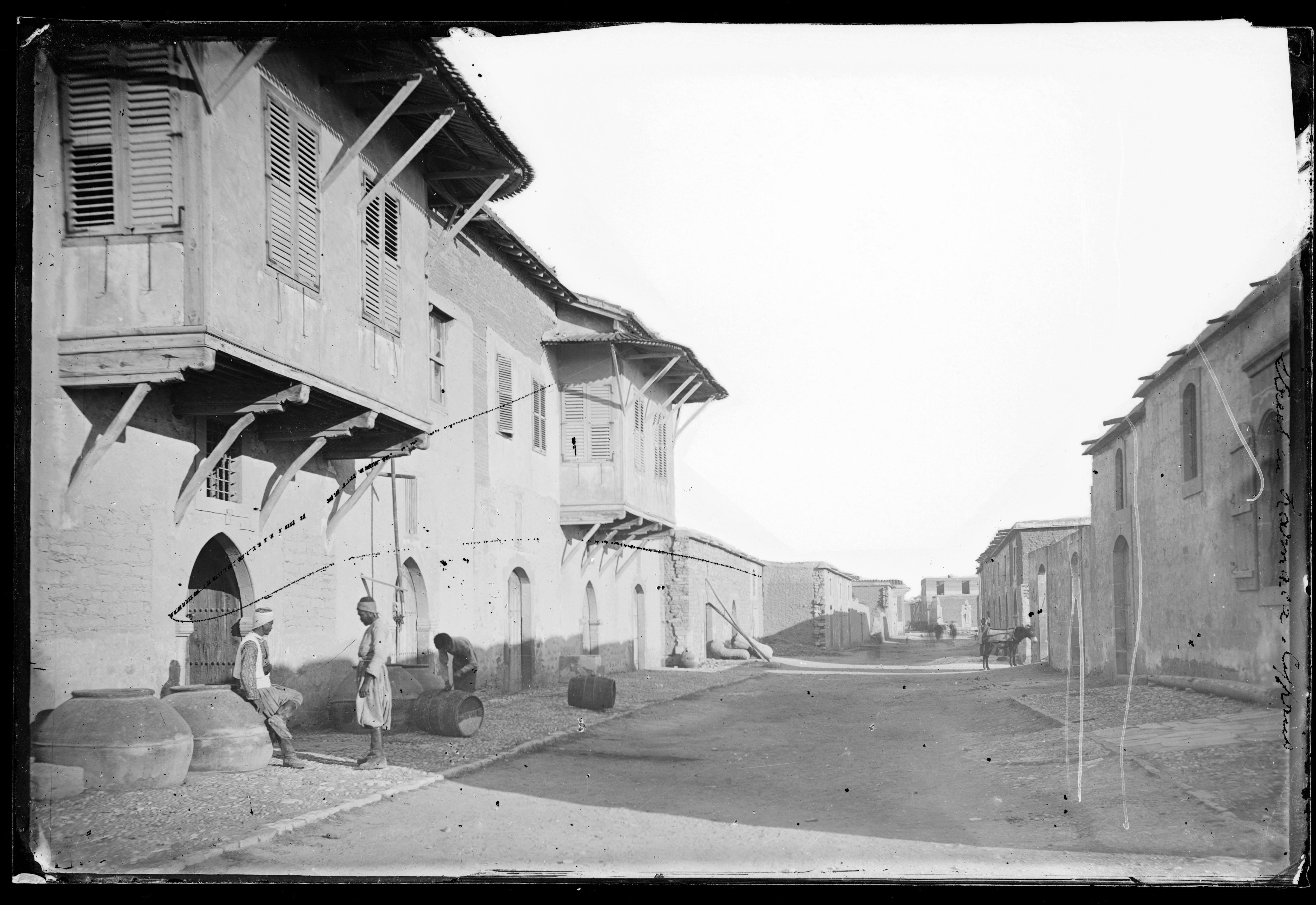 Larnaca, Cyprus. Photograph by John Thomson, 1878. Iconographic Collections Keywords: J. Thomson